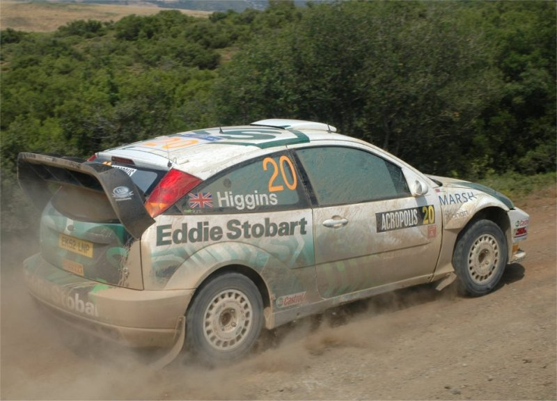 Mark Higgins driving a Ford Focus WRC at the 2005 Acropolis Rally.